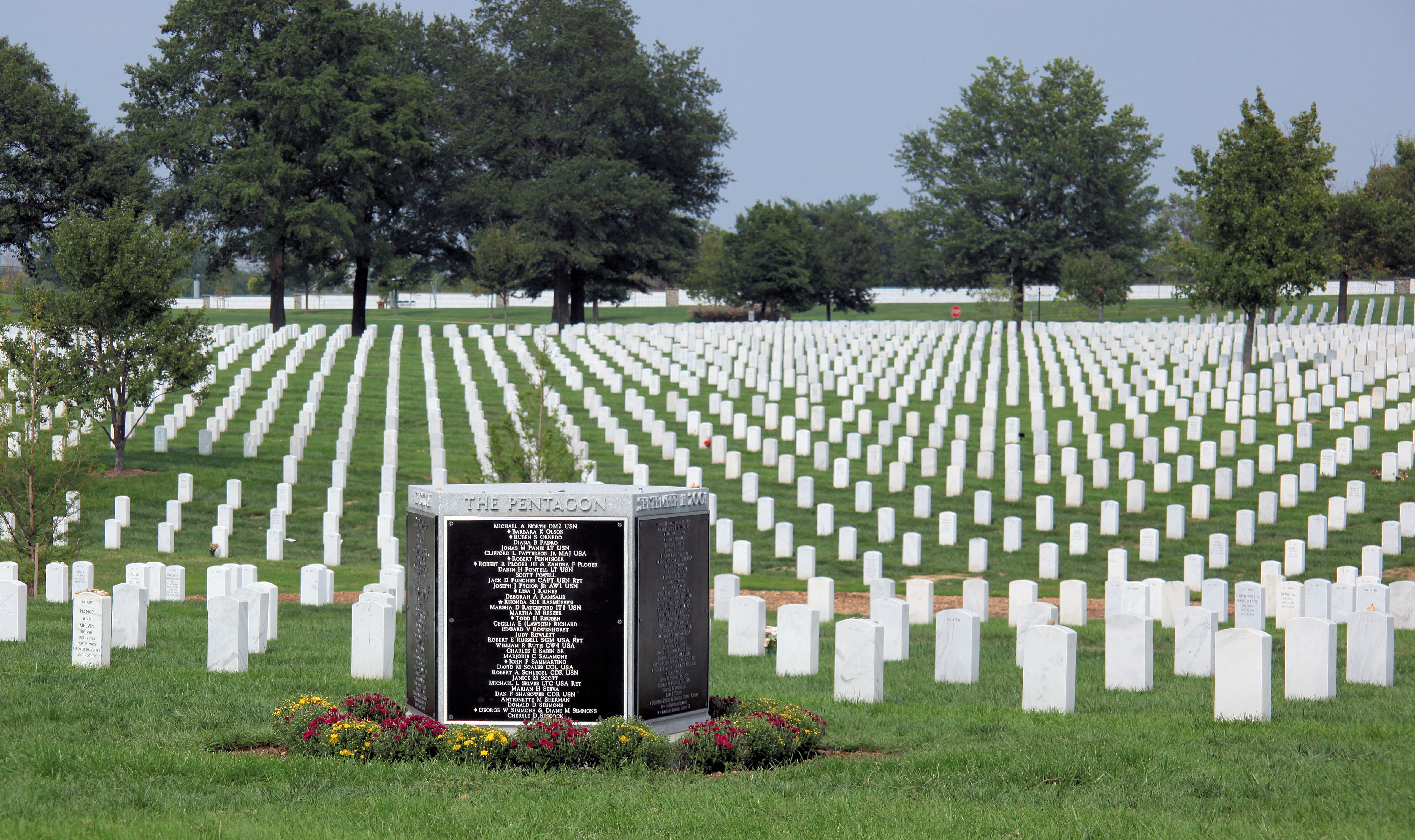 Looking northwest at the southeast corner of the Victims of Terrorist Attack on the Pentagon Memorial at Arlington National Cemetery in Arlington, Virginia, in the United States. Most of the headstones in the three rows closest to the memorial are victims of the 9/11 terrorist attack on the Pentagon. To the southeast, about a half mile away and visible through the trees (not shown here) is the Pentagon itself.